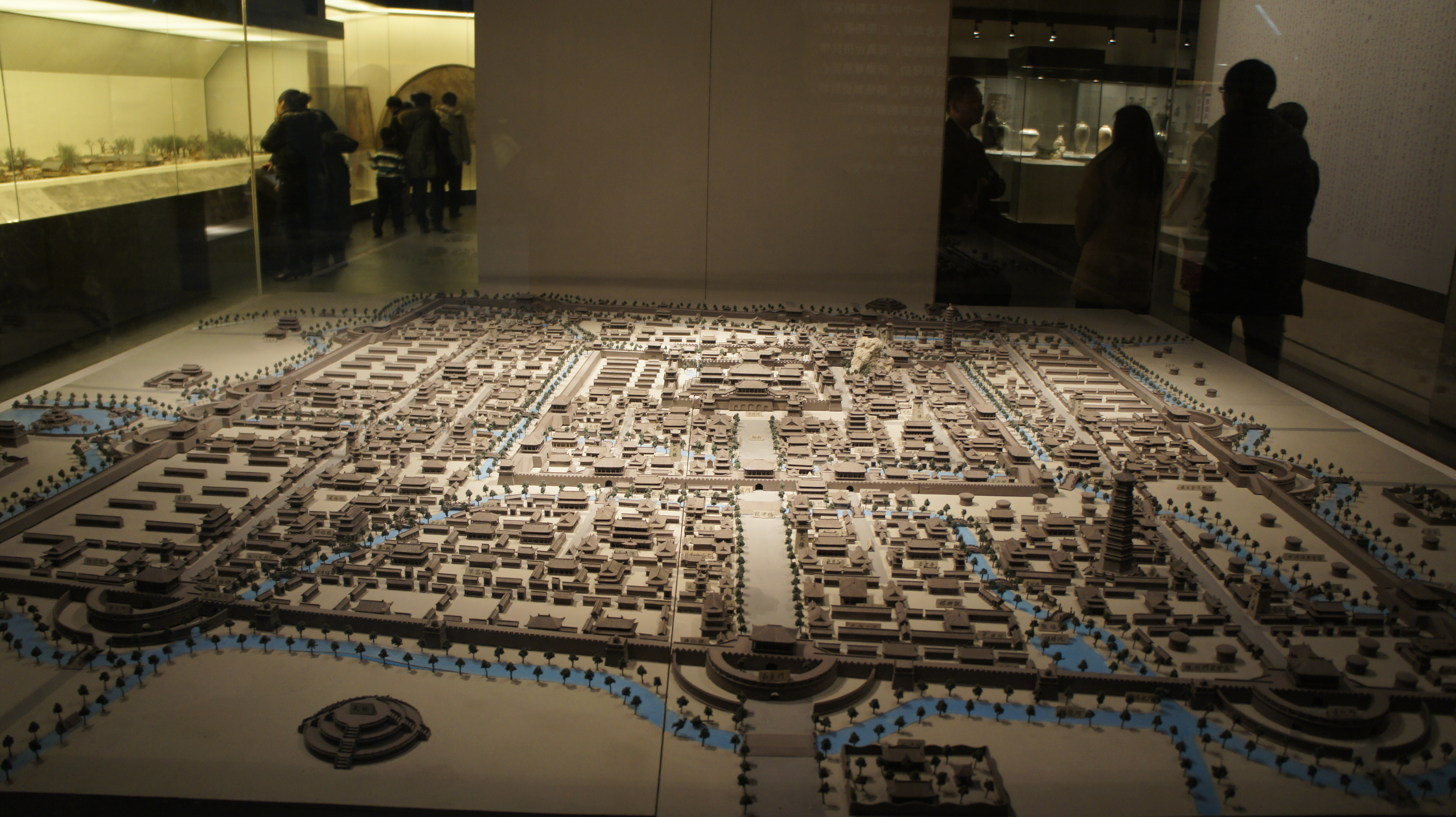 Reconstruction model of ancient city Bianjing (汴京)/Eastern Capital (东京), capital of the Northern Song (960 - 1127 AD).